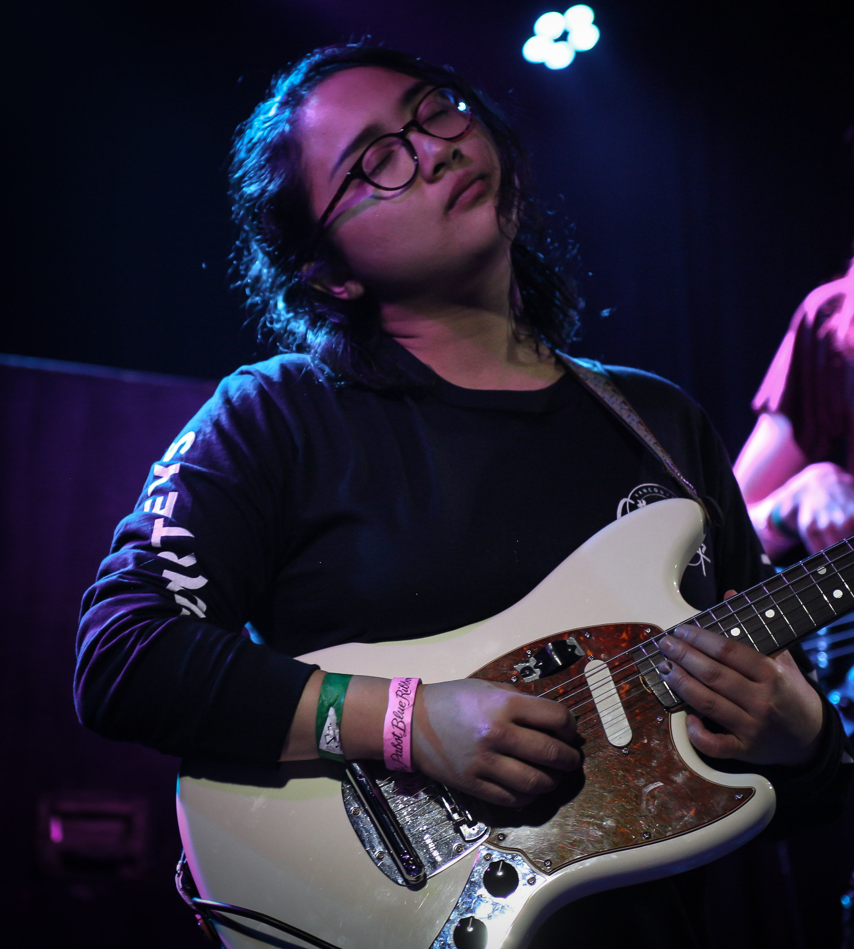 Jay Som - 7th Street Entry - First Avenue - 4/22